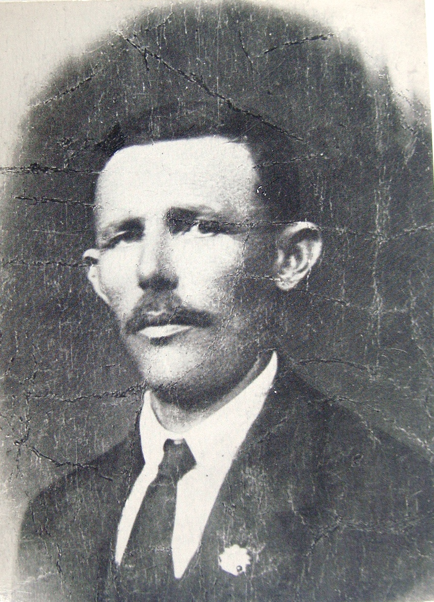 Ilija Plavev (1867 - 1940), a socialist, an associate of Vasil Glavinov. Councilor in the Red municipality of Skopje 1920 This media file is produced by Wikipedian in Residence in Category:Wikipedian in Residence at DARM in 2016.